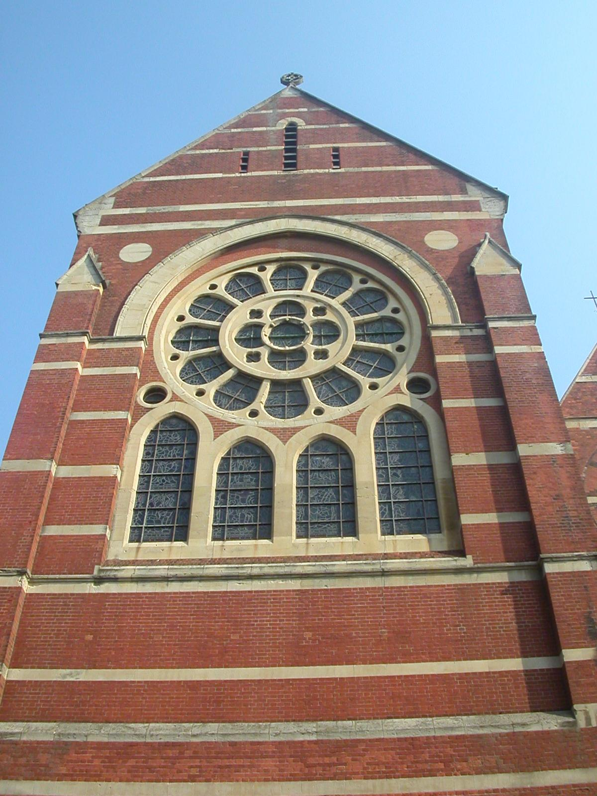 St Michael and All Angels Church, Brighton - windows at west end of the 1893 part of the church. Photographed on 31st March 2007.